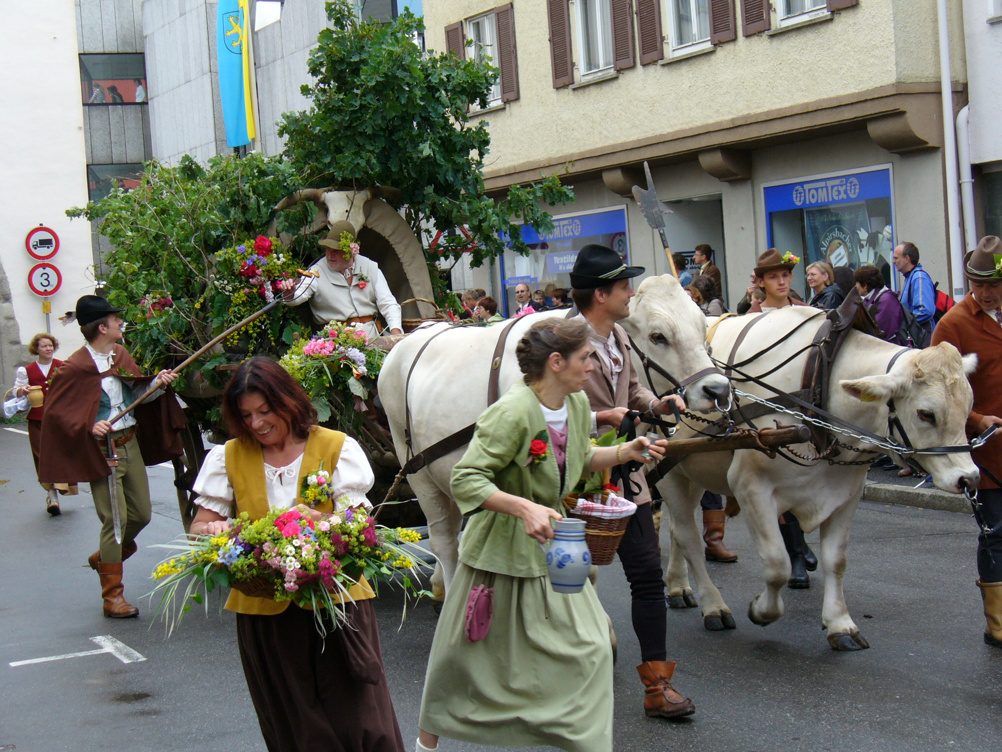 Schützenfest - Biberach an der Riß